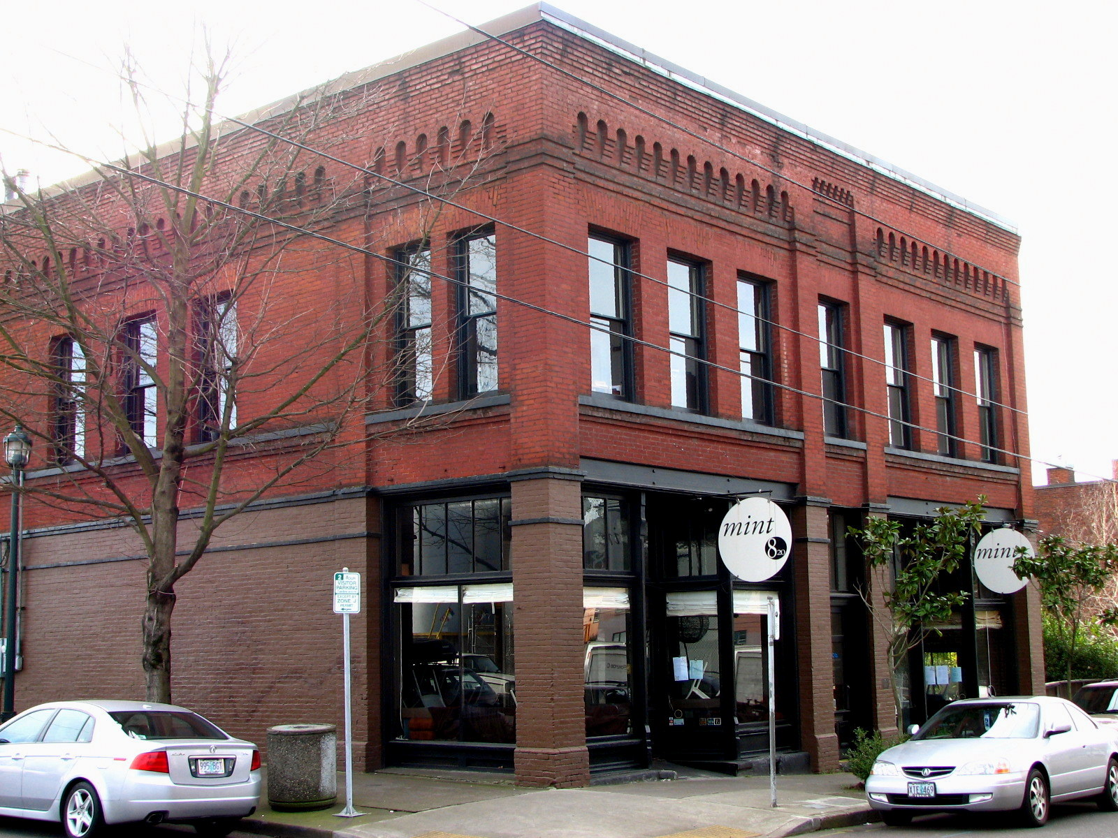 The historic Frederick Torgler Building, located at 816-820 North Russell Street in Portland, Oregon, United States, was built in 1894 and is listed on the US National Register of Historic Places. It was also known as Simmons and Heppner Drugstore. The lower level is currently in use as a restaurant and bar. Photo taken from across Russell Street facing southwest.